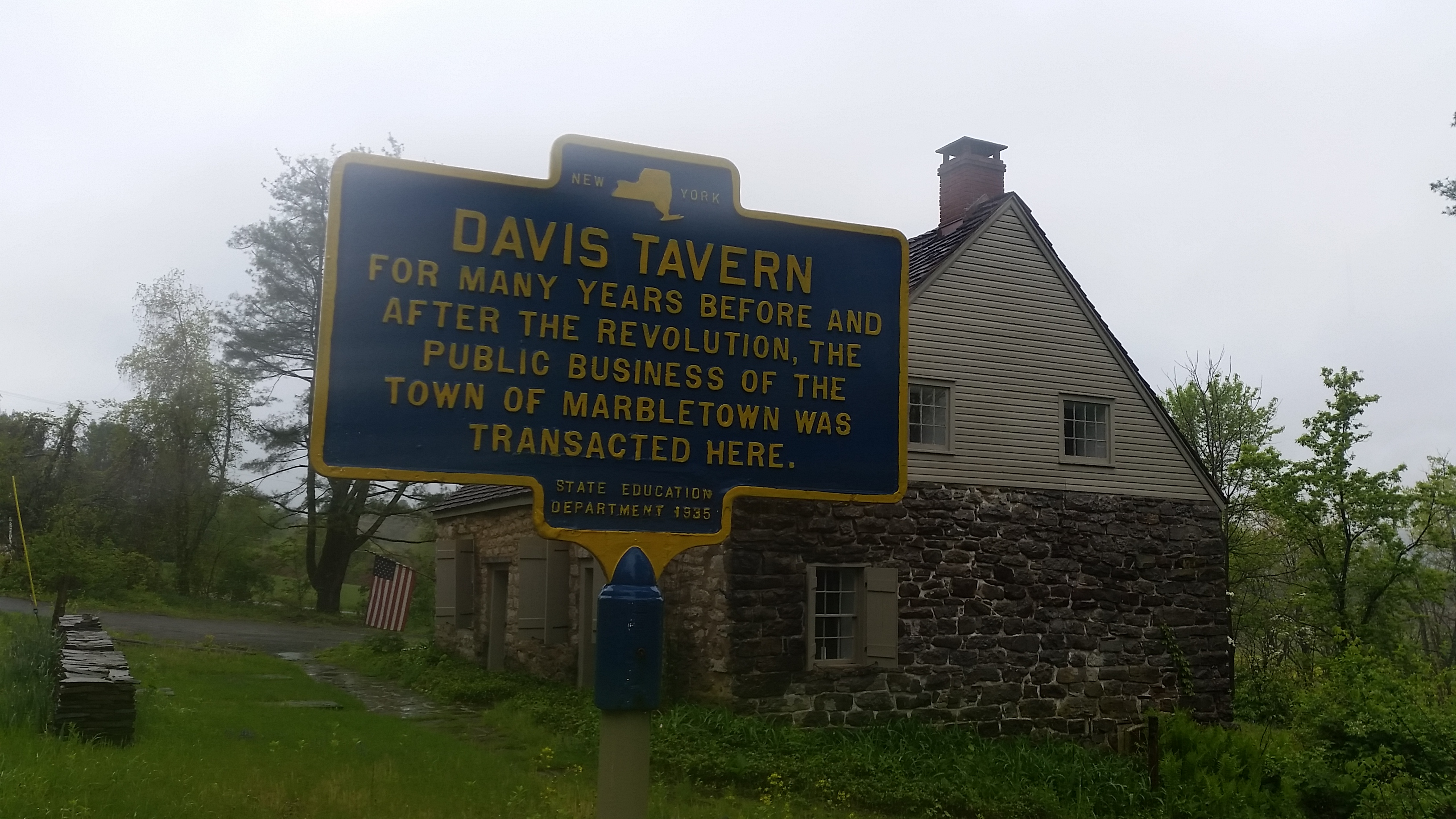 NY State Historical Marker for the Davis Tavern which, with the Tack Tavern and Bogardus Tavern is where New York governments used to conduct business in this area.